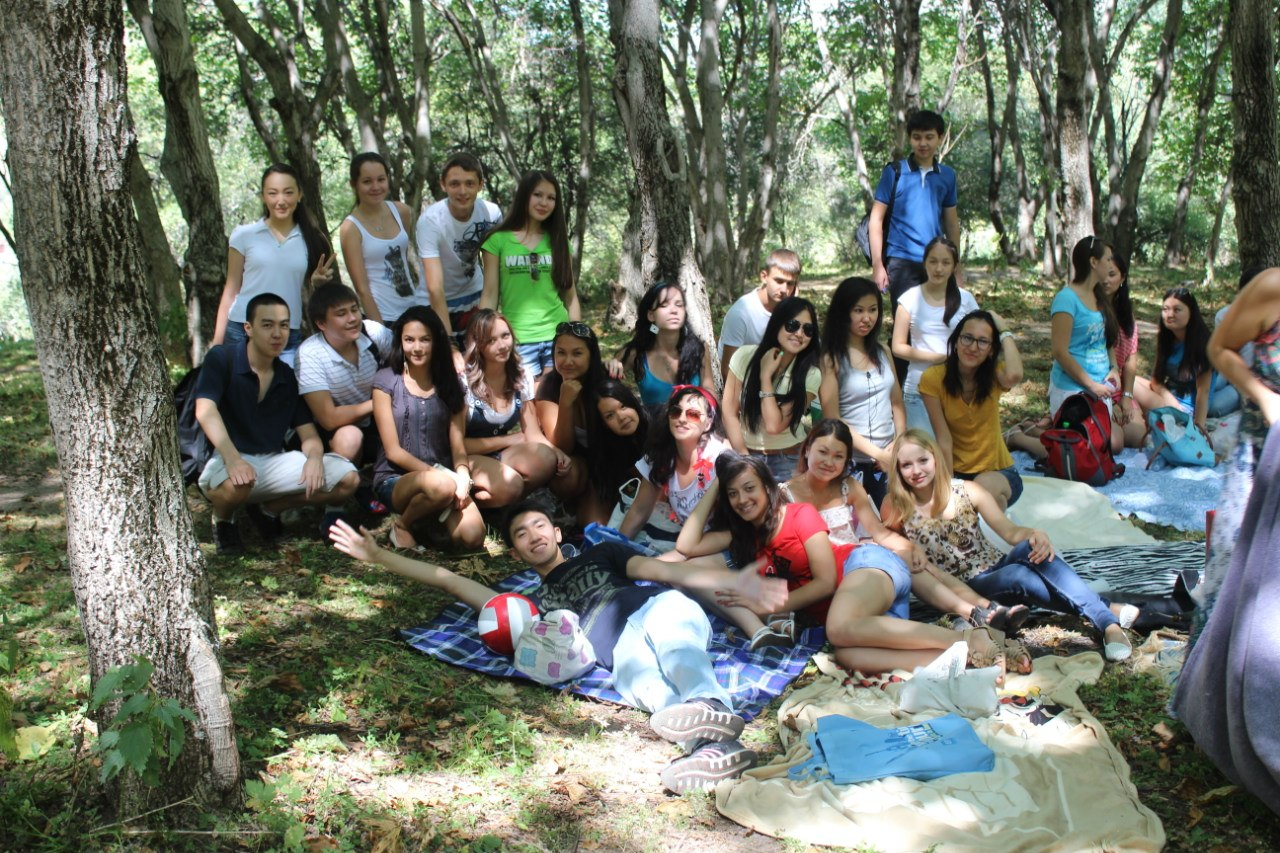 МАБикник